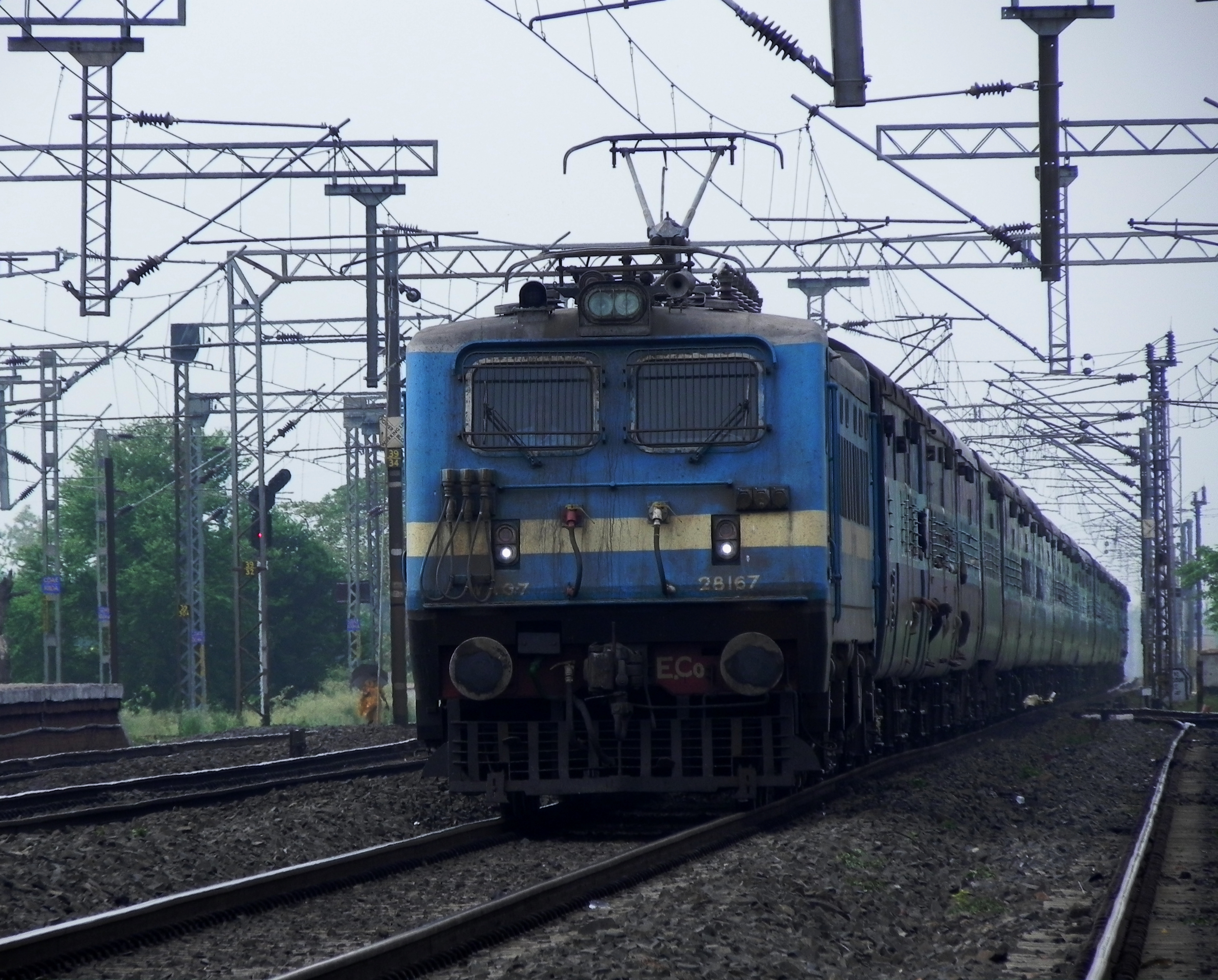 Amritsar (ASR) bound 12317 (Sealdah-Amritsar) Akal Takth Express with ANGL based WAG-7 loco at Chandanpur, West Bengal